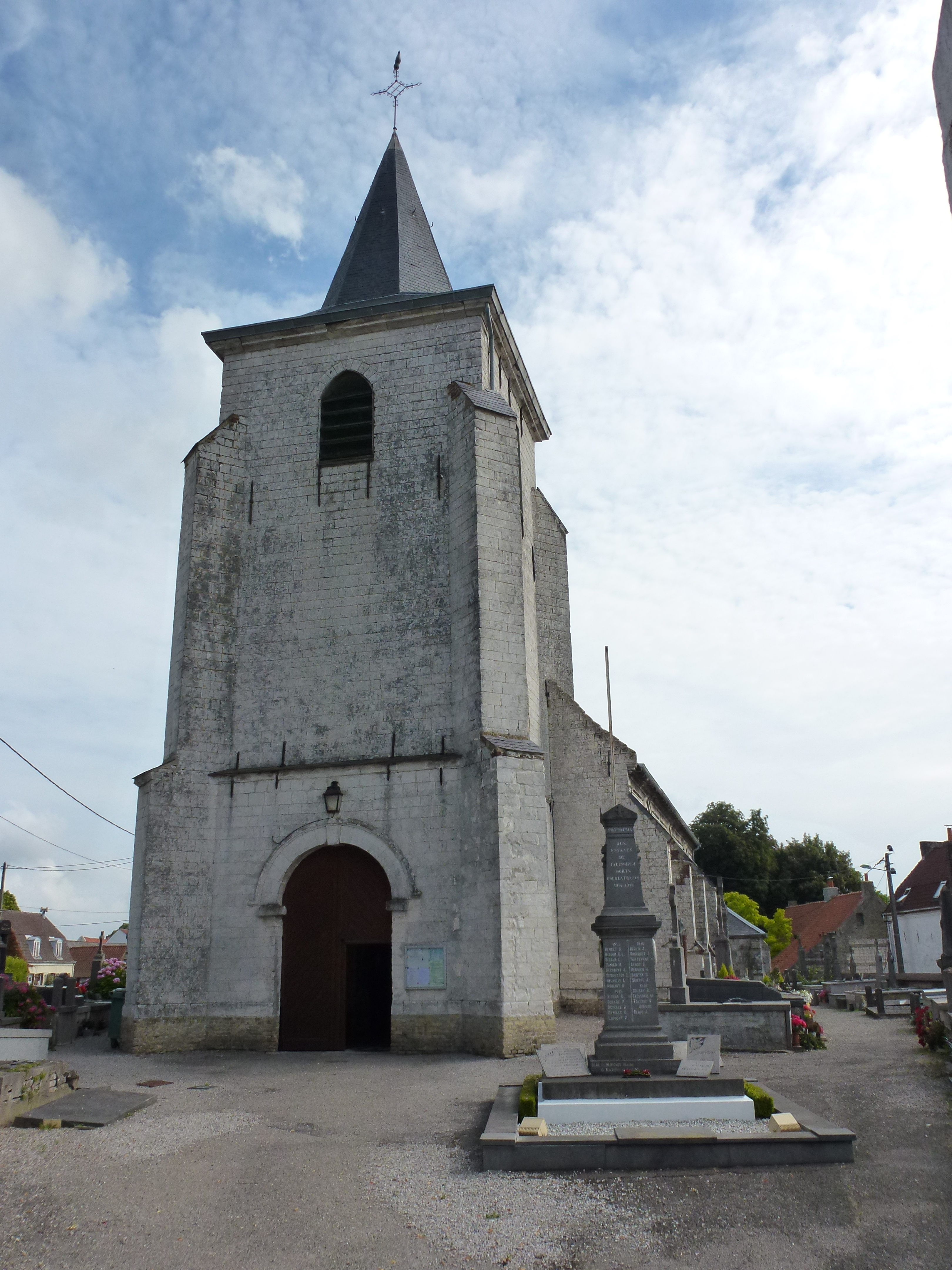 Tatinghem (Pas-de-Calais, Fr) Église Saint-Jacques